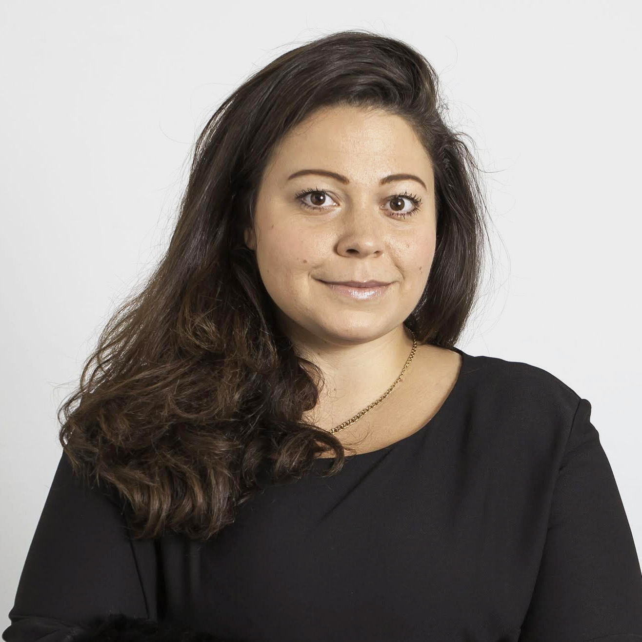 Professional Picture of Claudia Olsson